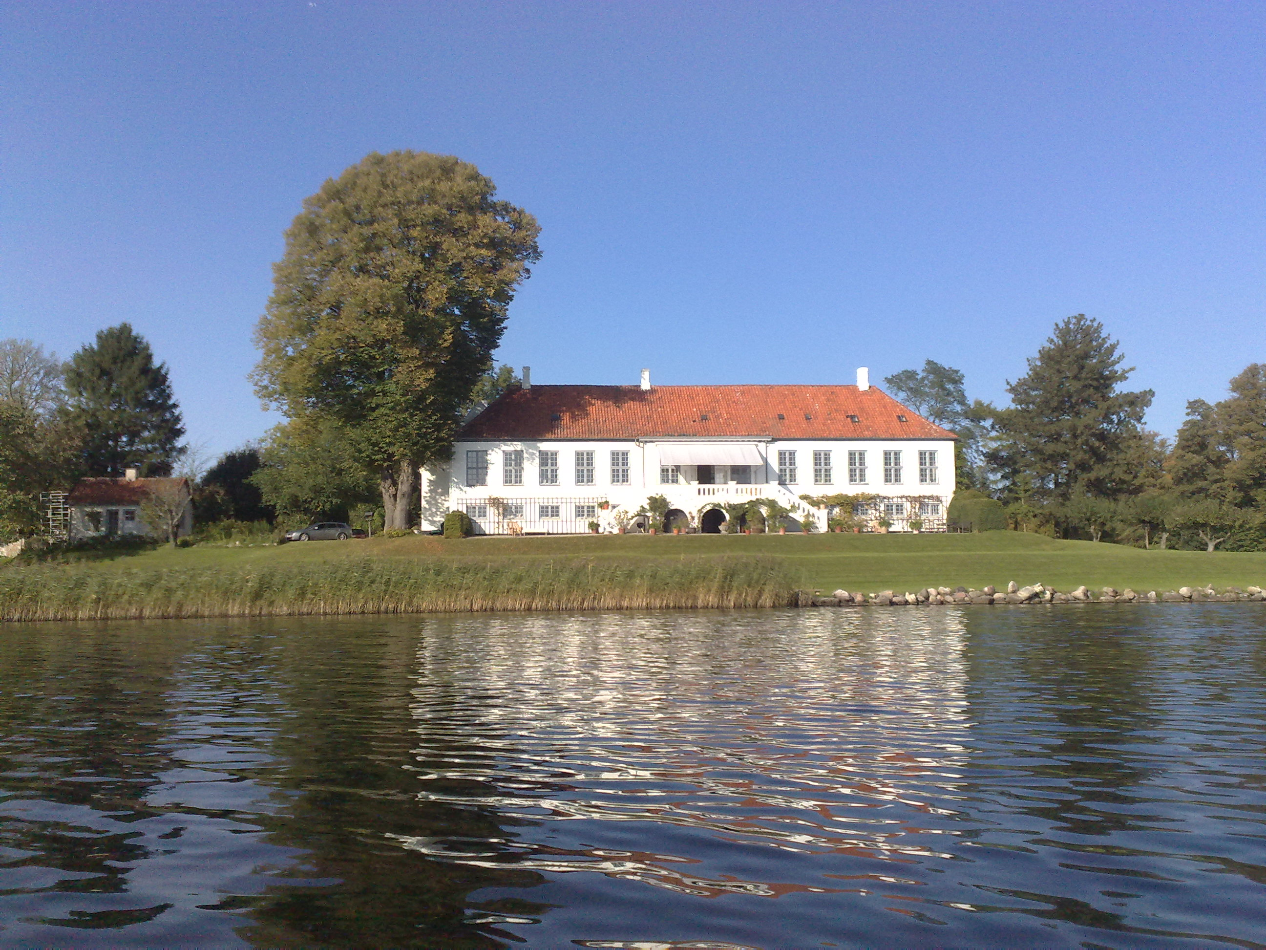 The main building of Farumgård, seen from the lake (Farum Sø)